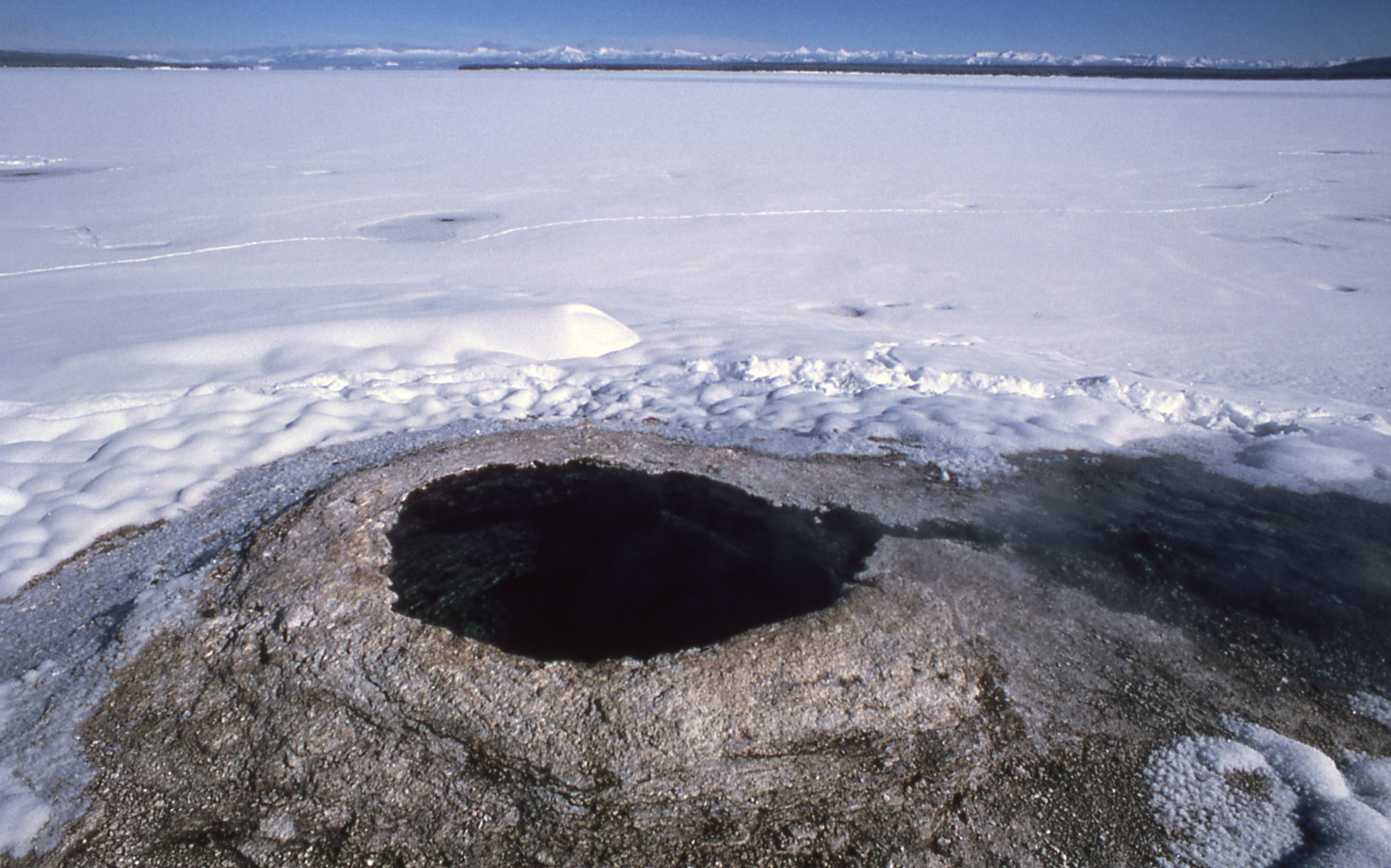 Big Cone geyser in winter with Yellowstone Lake in the background; West Thumb Geyser Basin